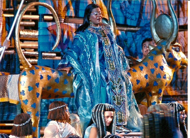 American Mezzo Tichina Vaughn as Amneris in Verona